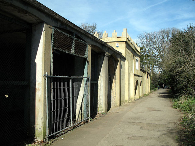 The Bothy